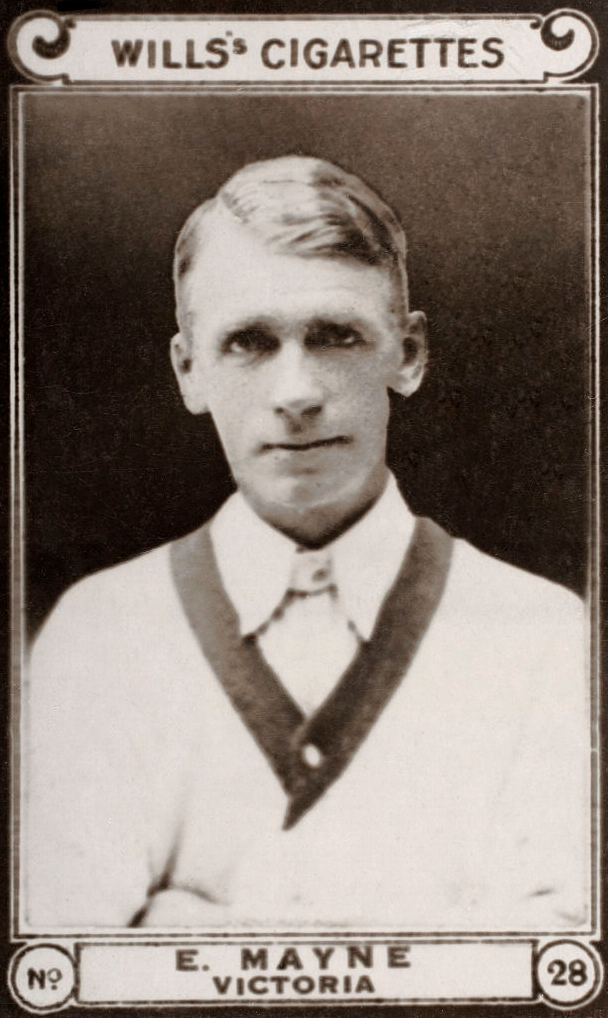 A vintage cigarette card featuring cricketer Ernie Mayne of Victoria, circa 1920.